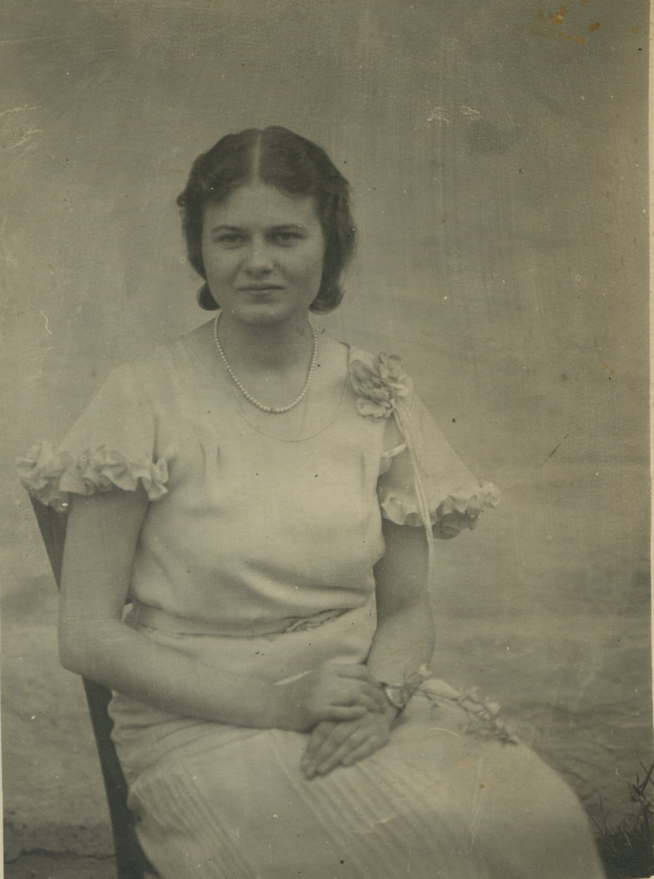 Izabella Zielińska born Ostaszewska (1910-) [daughter of Stanisław Ostaszewski and Aniela Sękowska], wife of Bogdan Zieliński